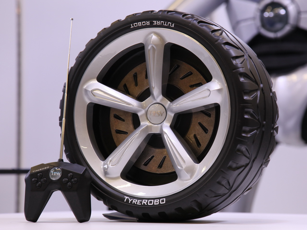 TOSY Tyre Robo Robot